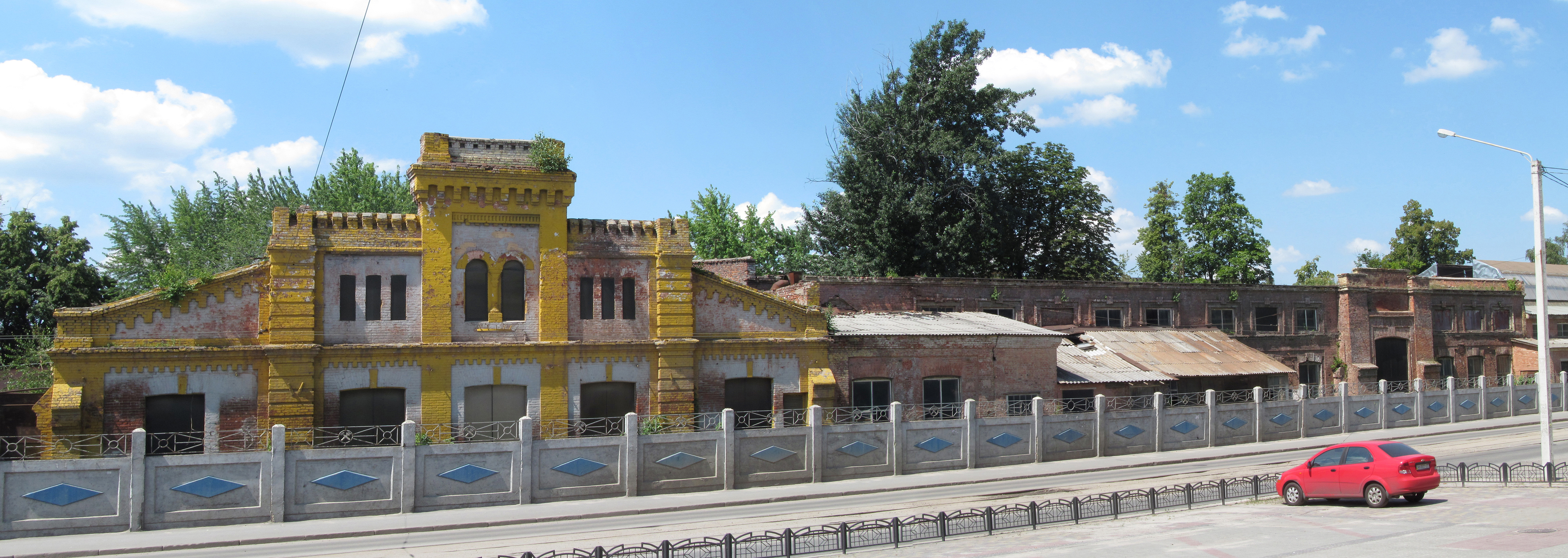 Old Buildings of Carriage Repair Workshop. Velyka Panasivska street, 89, Kharkiv.